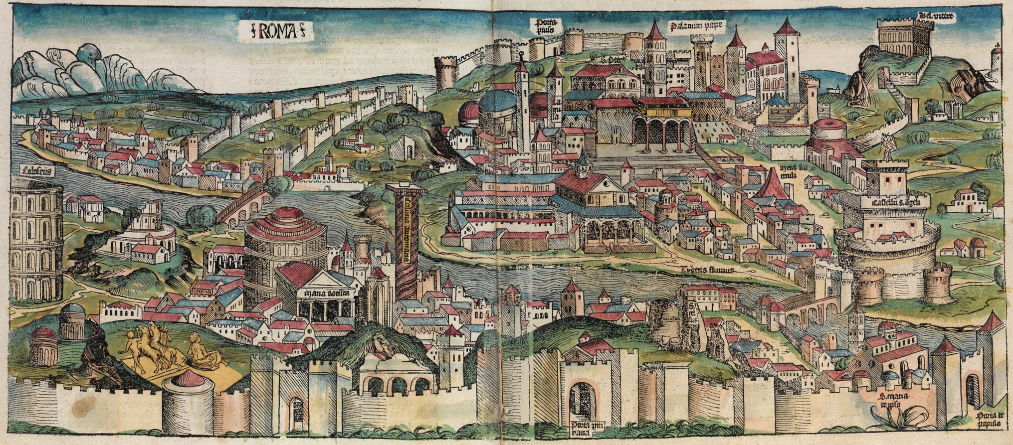 Illustration from the Nuremberg Chronicle